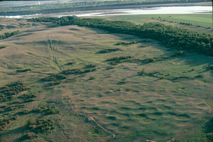 Aerial view of Big Hidatsa Village site, Knife River Indian Villages National Historic Site, Stanton, North Dakota.